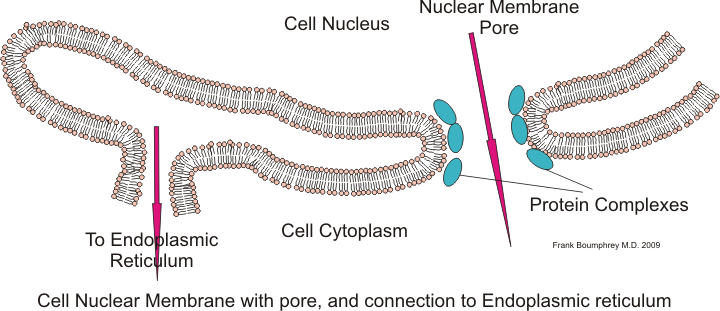 Illustration of double layer of the nuclear membrane with pore surrounded by protein complexes and connection to the Endoplasmic reticulum